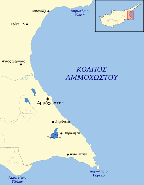 Map of the Famagusta Bay area in Cyprus, greek labels.